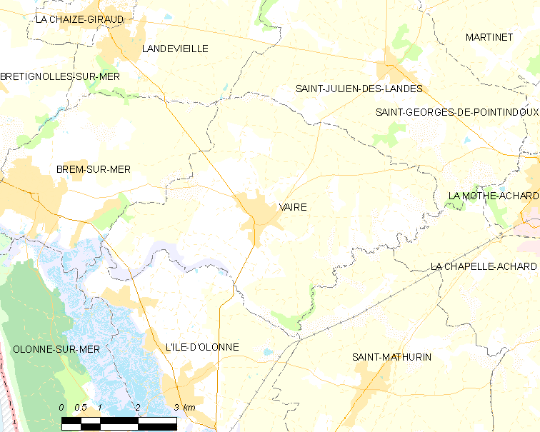 Map of French municipality Vairé